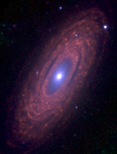 Image of the NGC 2841 galaxy in Infrared at 3.6 (blue), 5.8 (green) and 8.0 (red) µm. The image has been made by myself (Médéric Boquien) from the data retrieved on the SINGS project public archives of the Spitzer Space Telescope (courtesy NASA/JPL-Caltech)